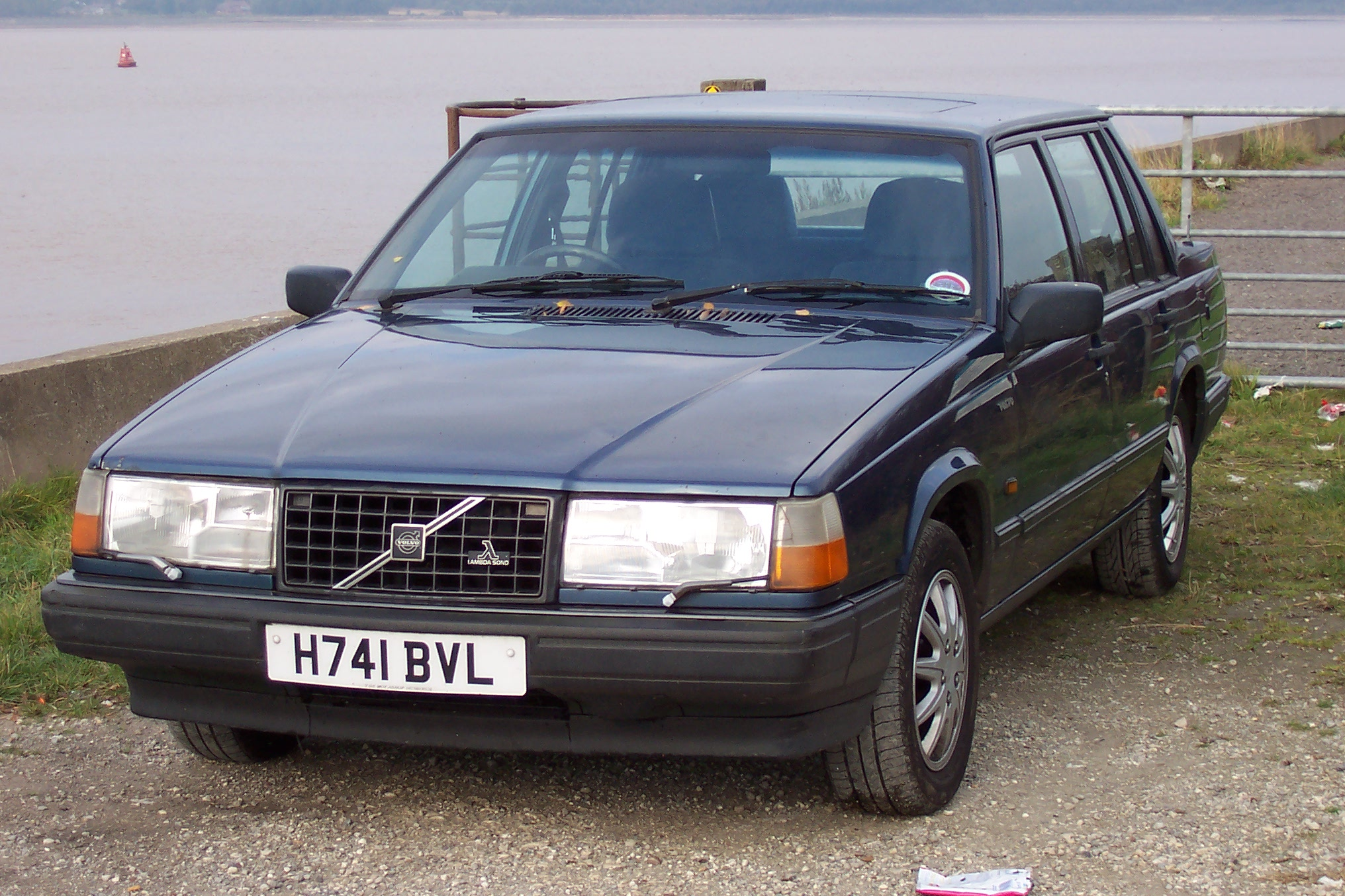 1990 Volvo 740GLT in Baltic Blue